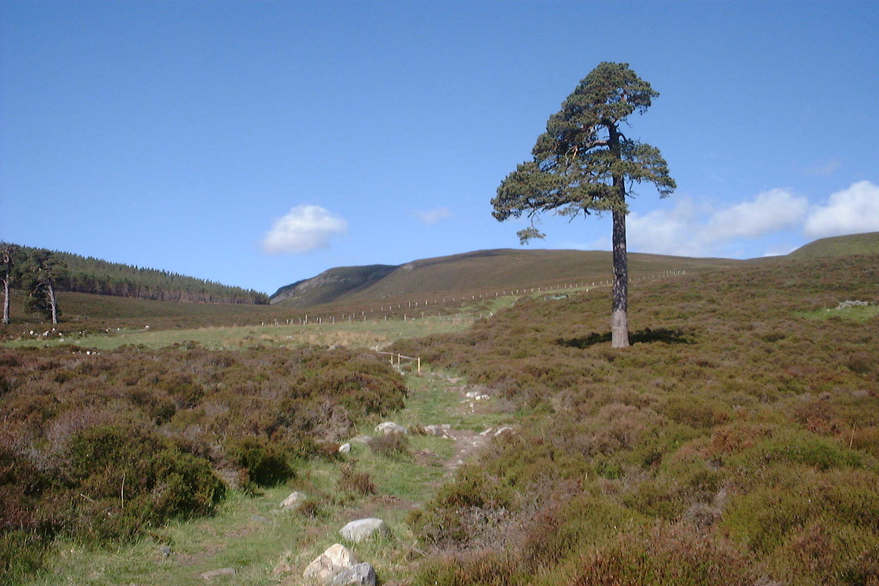 Solitary Pinus sylvestris at the path long Clais Fhearnaig, Mar Lodge Estate, looking west from Glen Quoich, Scotland.